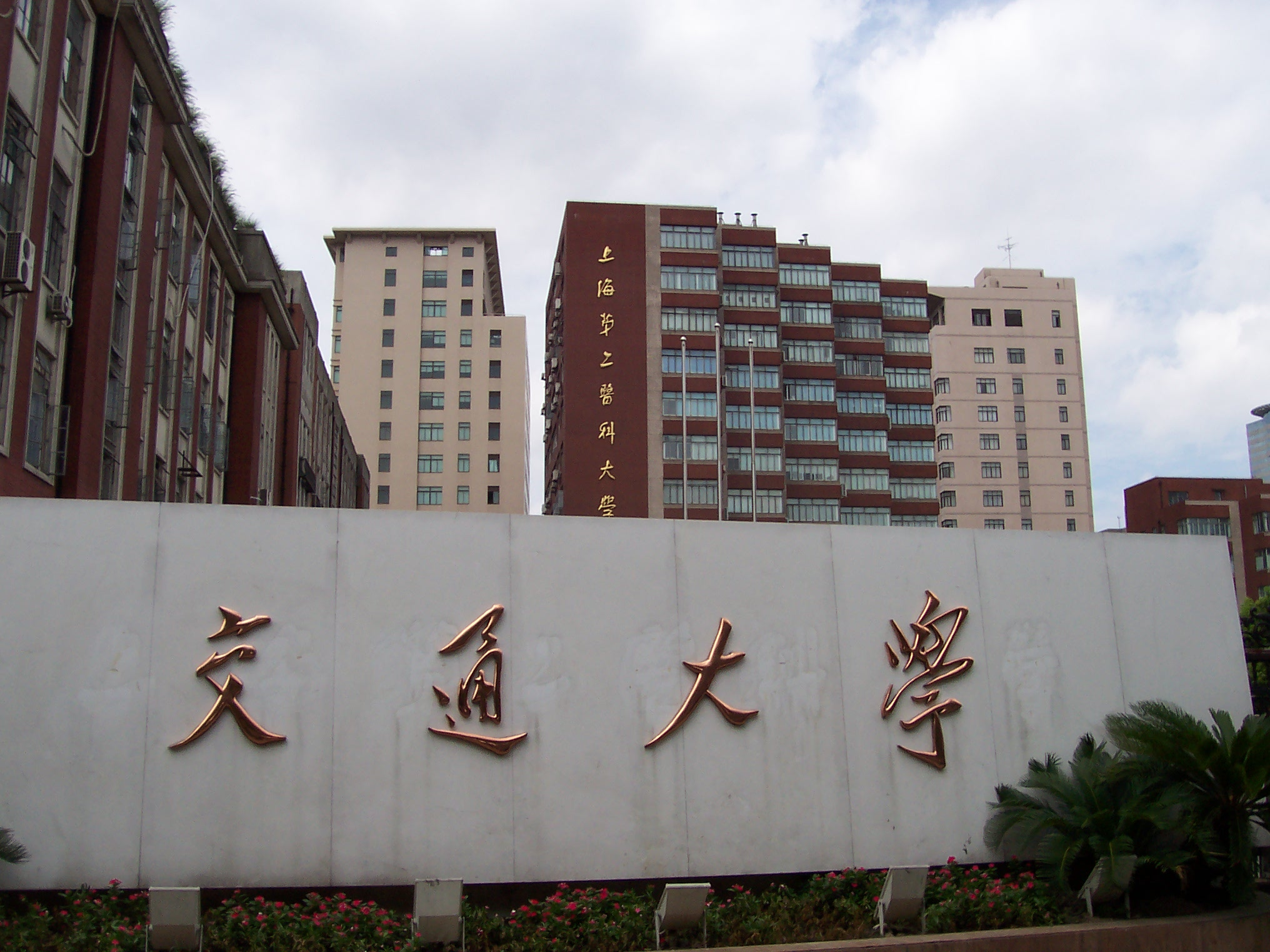 The gate of School of Medicine, SJTU